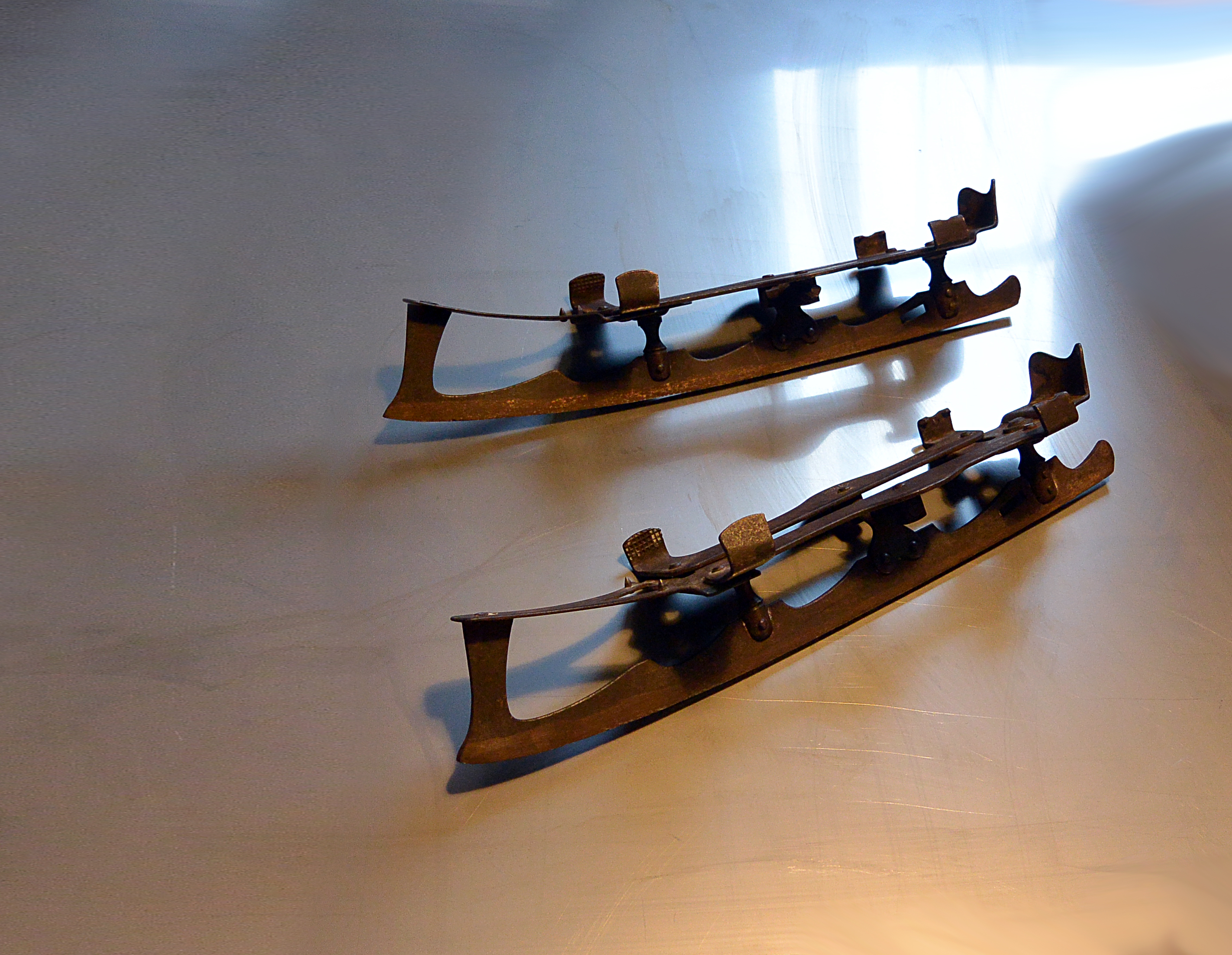 Blades of ice skates, made by the German company "Kondor", about 1890. Size Nr. 29 [cm].